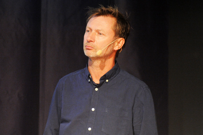 Peter Gerhardsson